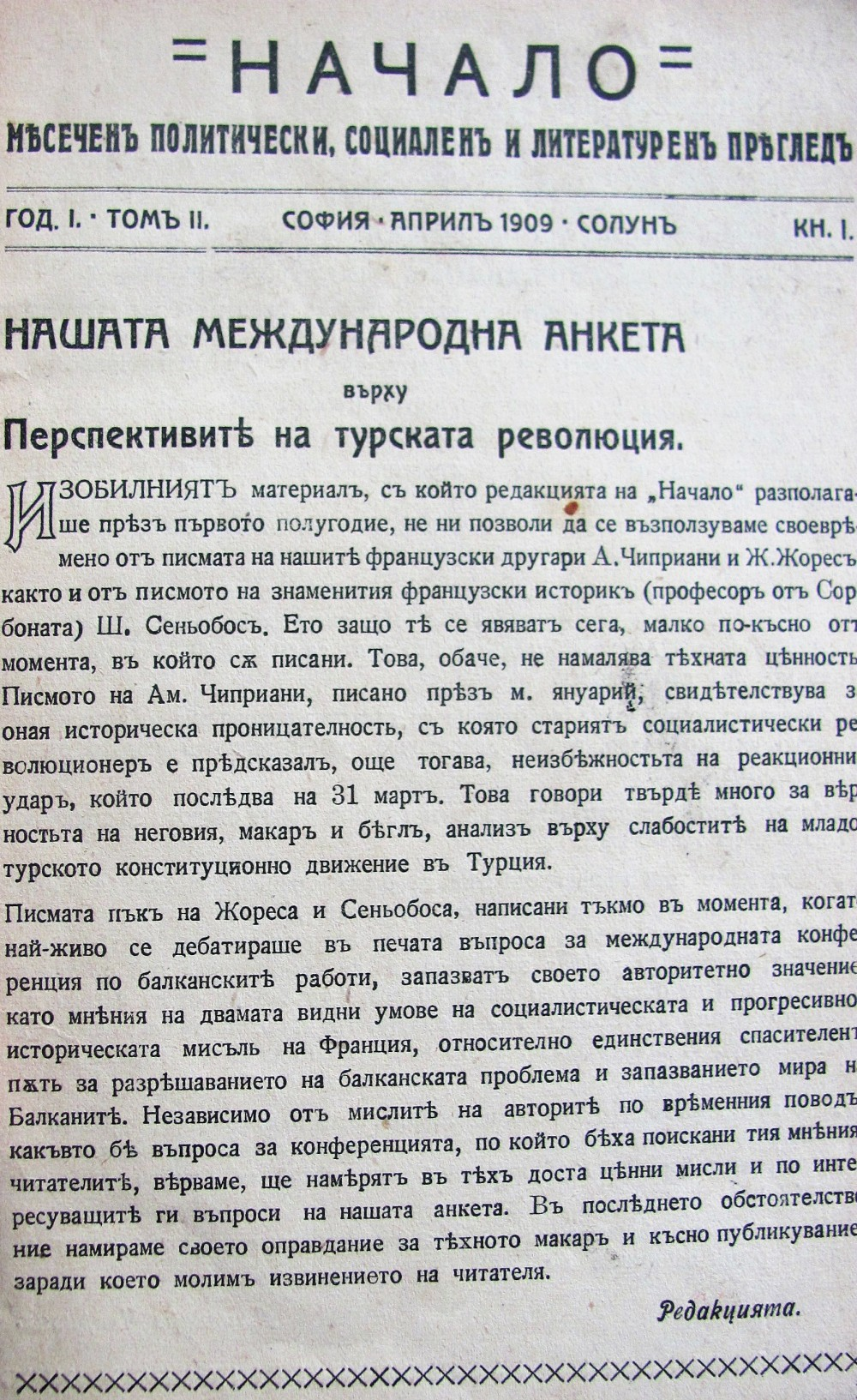 Nachalo II, 1, April 1909 Editorial